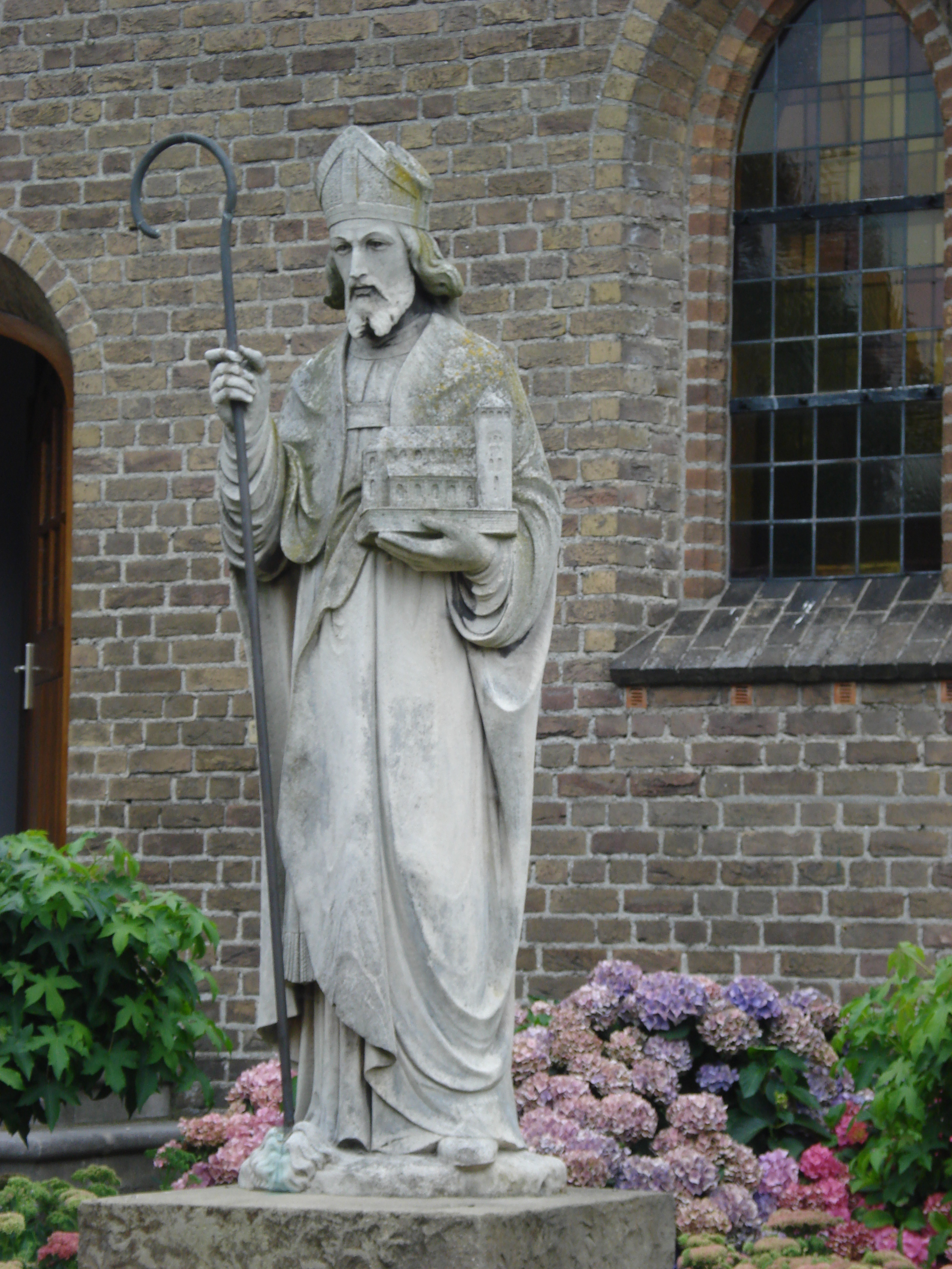 Mill, North Brabant, statue Saint Willibrord